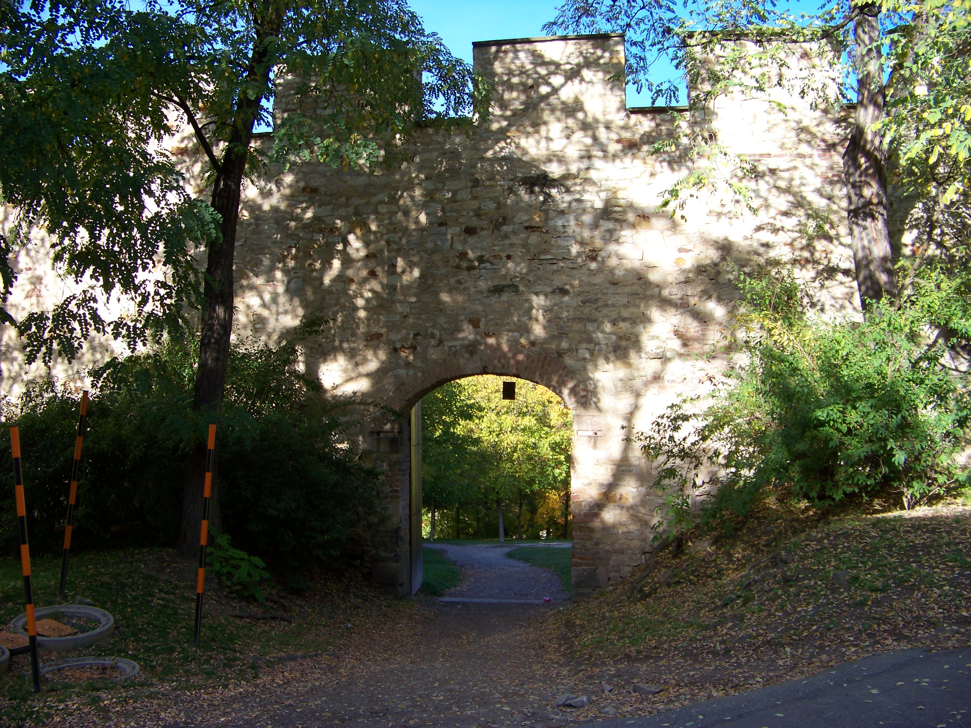 Prague-Hradčany, the Czech Republic. Strahovská street, gothic city walls, a gate to the Strahov Garden. - OpenStreetMap(Info)